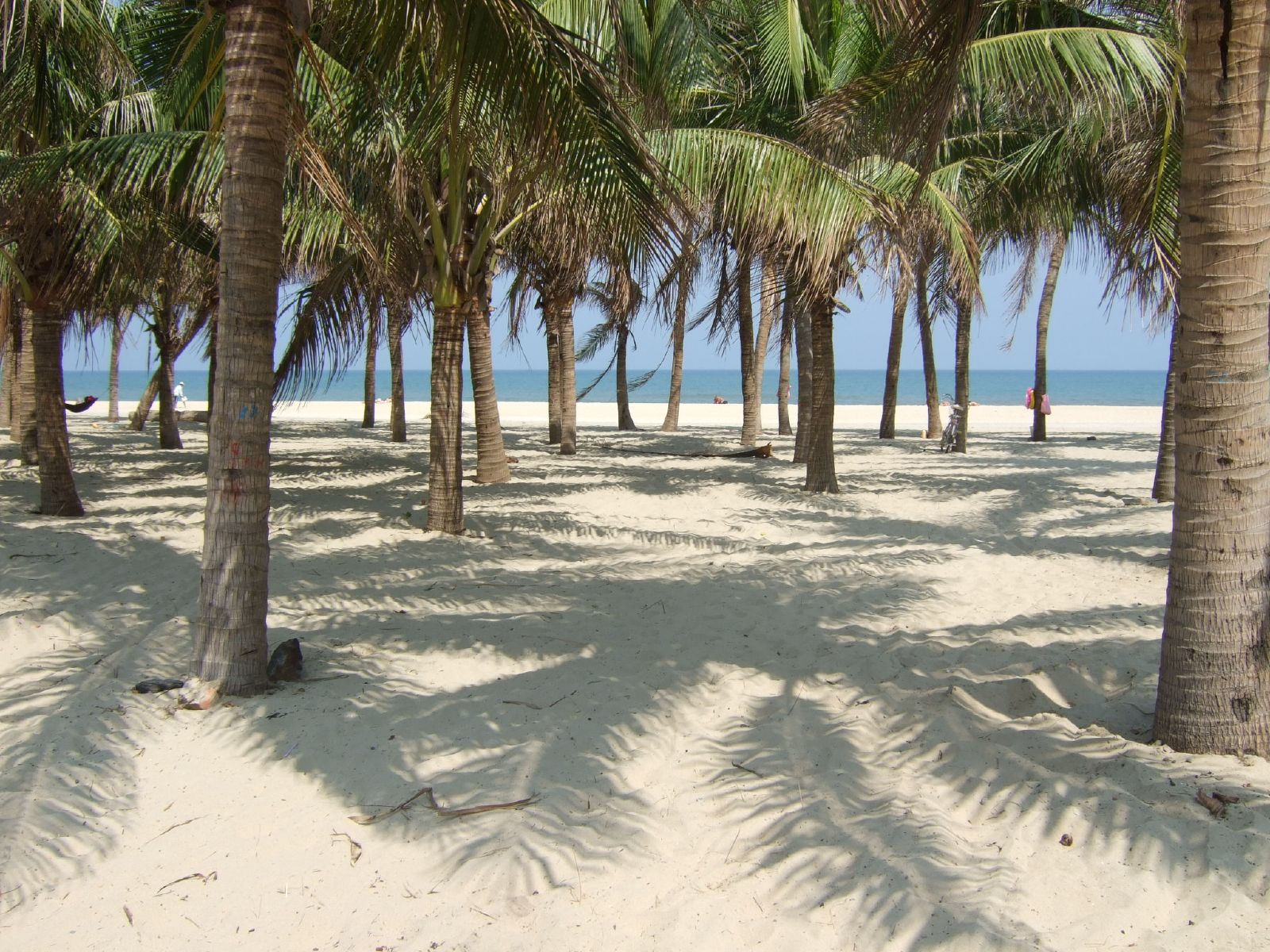 Cu Dai Strand Hoi An